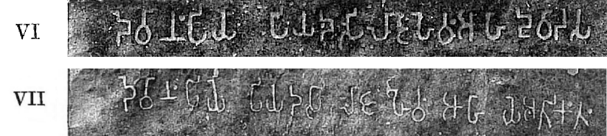 Delhi-Topra pillar First lines of Edict VI and Edict VII